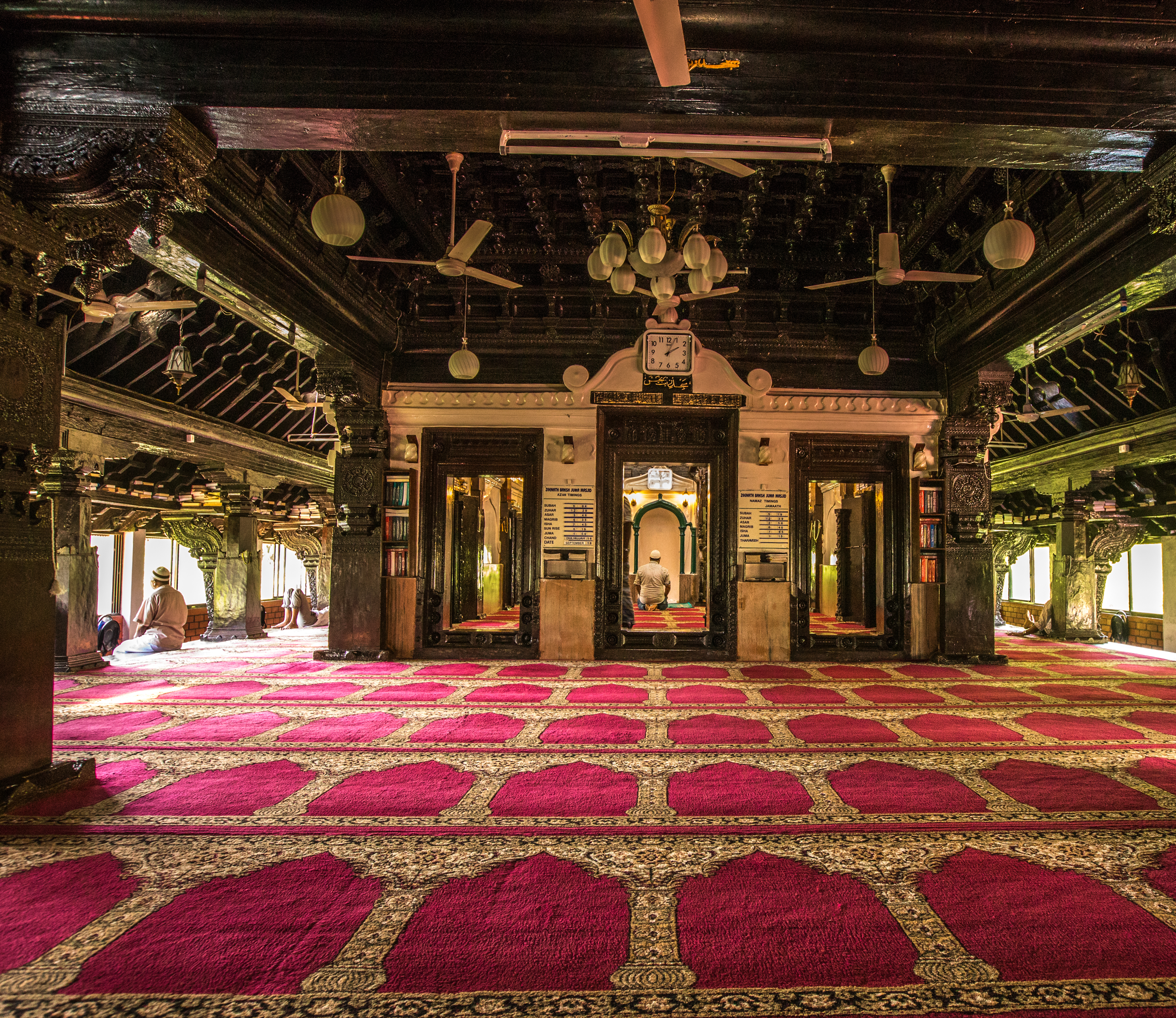 Prayer Hall of Jumma mazjid, Zinad Baksh, Bunder, Mangalore